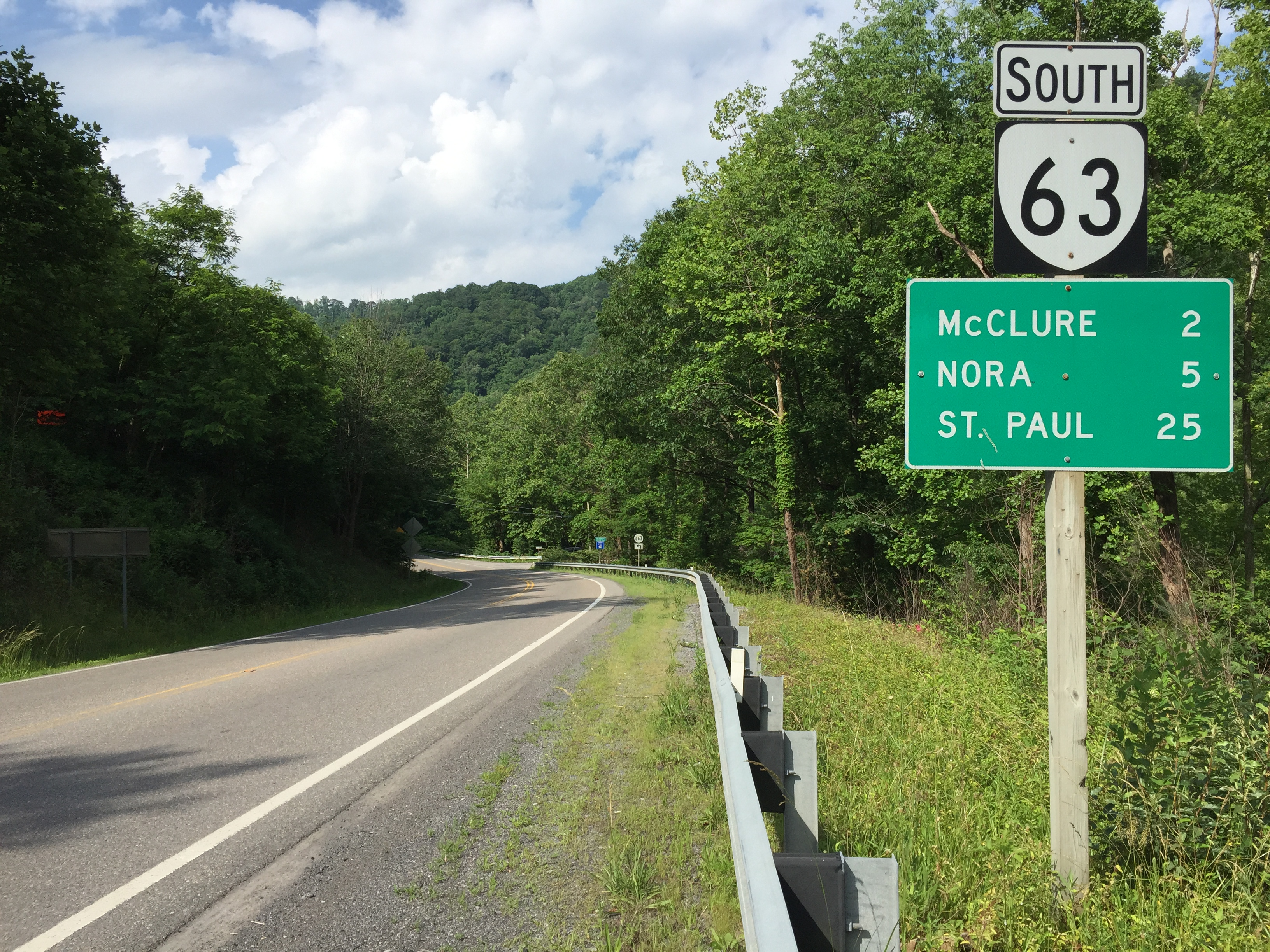 View south along Virginia State Route 63 at Virginia State Route 83 (Fremont Avenue) in Fremont, Dickenson County, Virginia